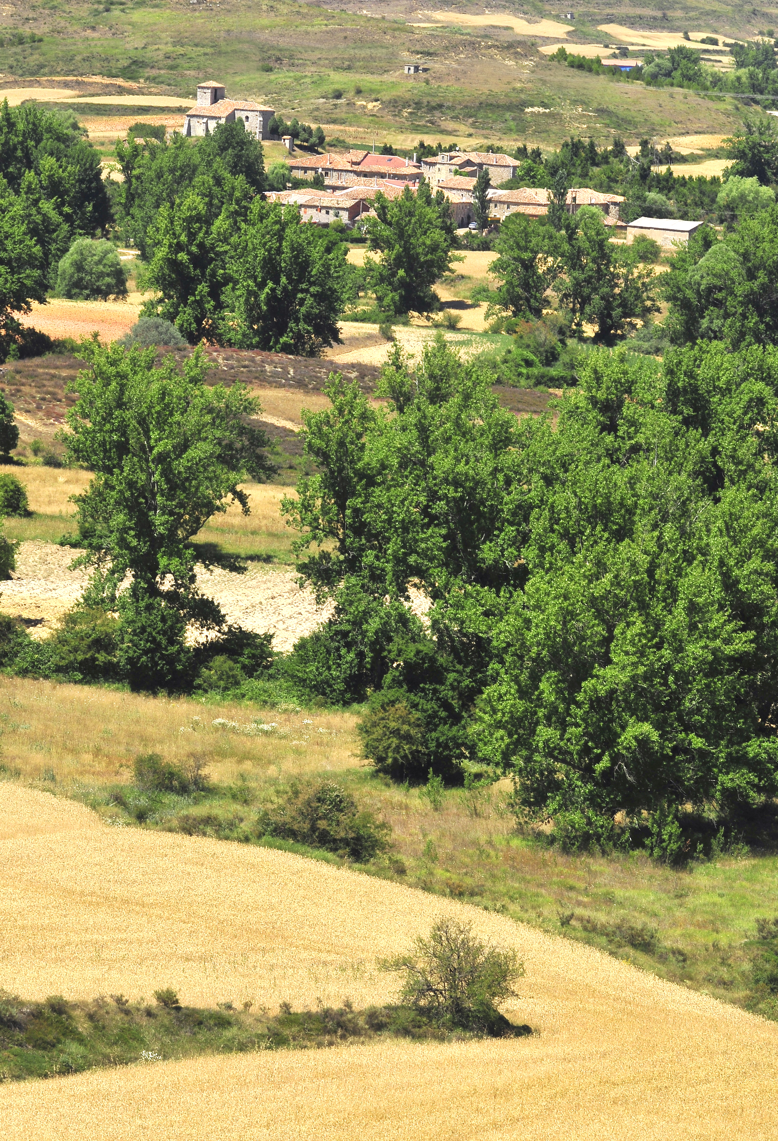 The village and it's surroundings. Quintanilla de la Presa, Villadiego, Burgos, Castile and Leon, Spain